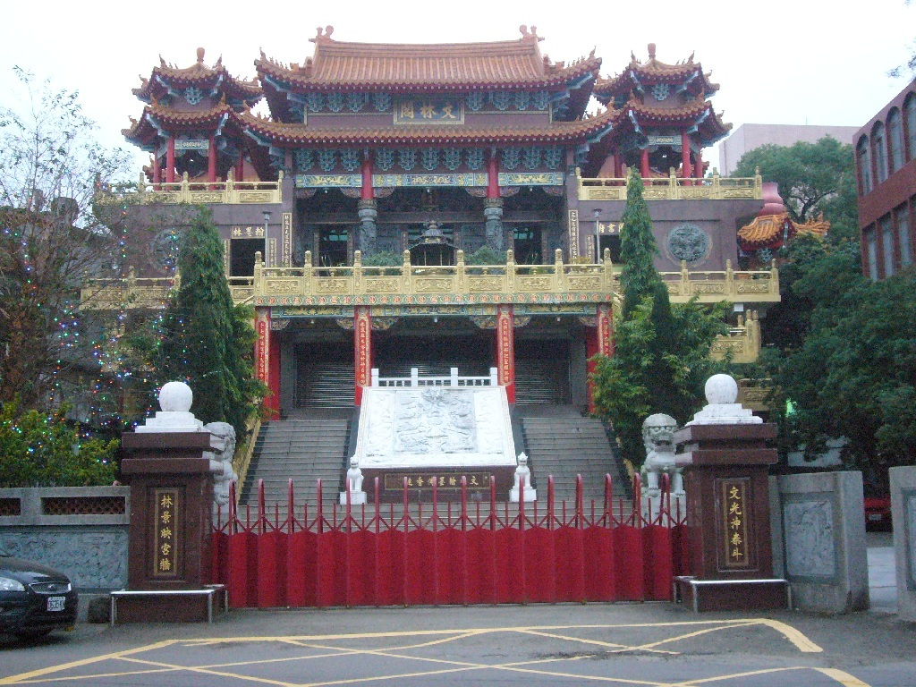 Wen-Lin Temple, Qionglin Township, Hsinchu County, Taiwan.